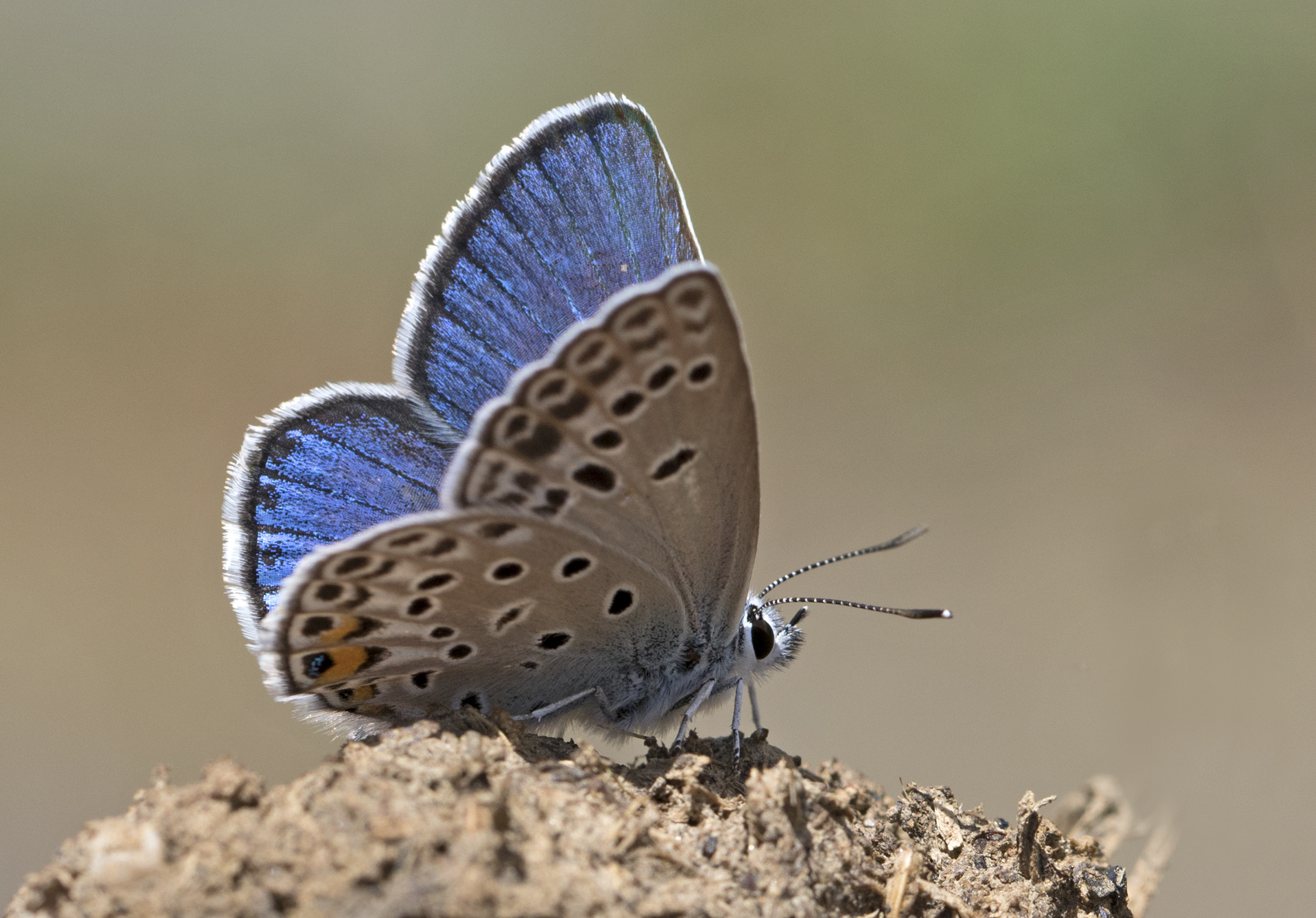 Wing underside view of a Large Jewel Blue (Albulina loewii) butterfly. Obrukbaşı, Saimbeyli - Adana, Turkey.